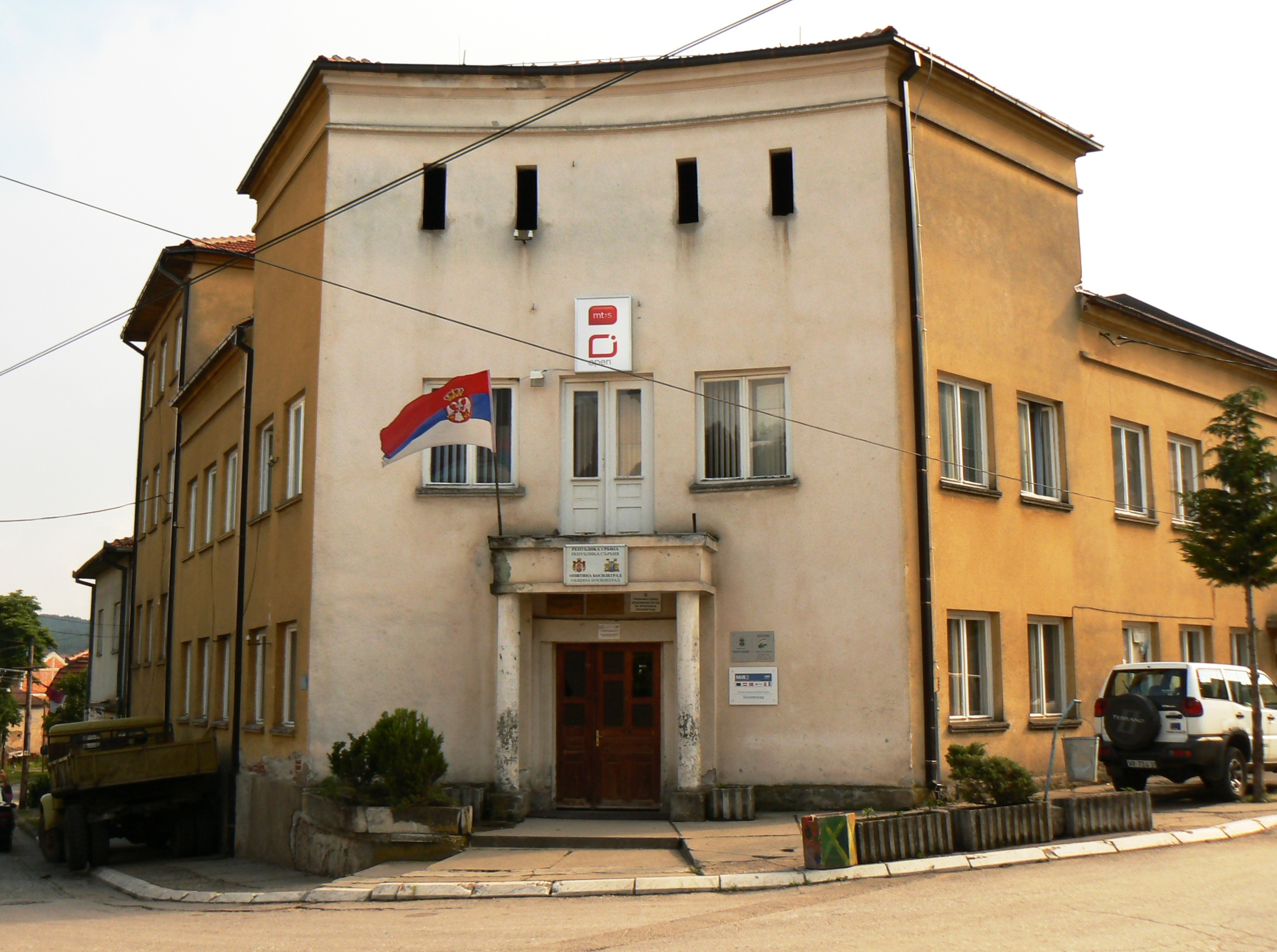 The building of Bosilegrad Municipality